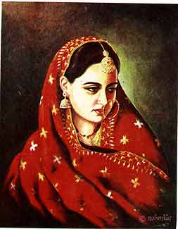 Painting